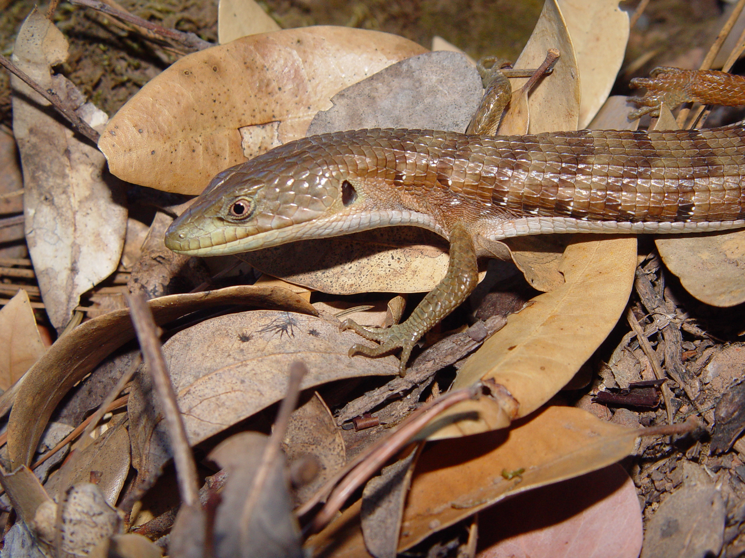 Shasta Alligator Lizard (Elgaria coerulea shastensis) Family: Anguidae Bailey Cove, Shasta lake, CA